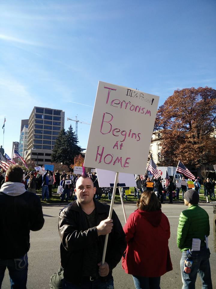 A demonstration at the Idaho Statehouse supporting refugees following the refugee backlash after the November 2015 Paris attacks; a much smaller counter-demonstration under the aegis of Idaho ACT for America (ACT! for America) was held across the street. The top line is "III% Poison!"